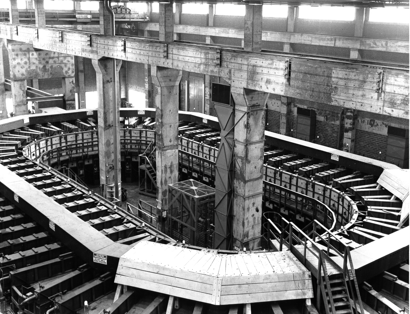 Alpha Track Calutron at the Y-12 Plant at Oak Ridge, Tennessee from the Manhattan Project, used for uranium enrichment by electromagnetic separation process. for additional information.